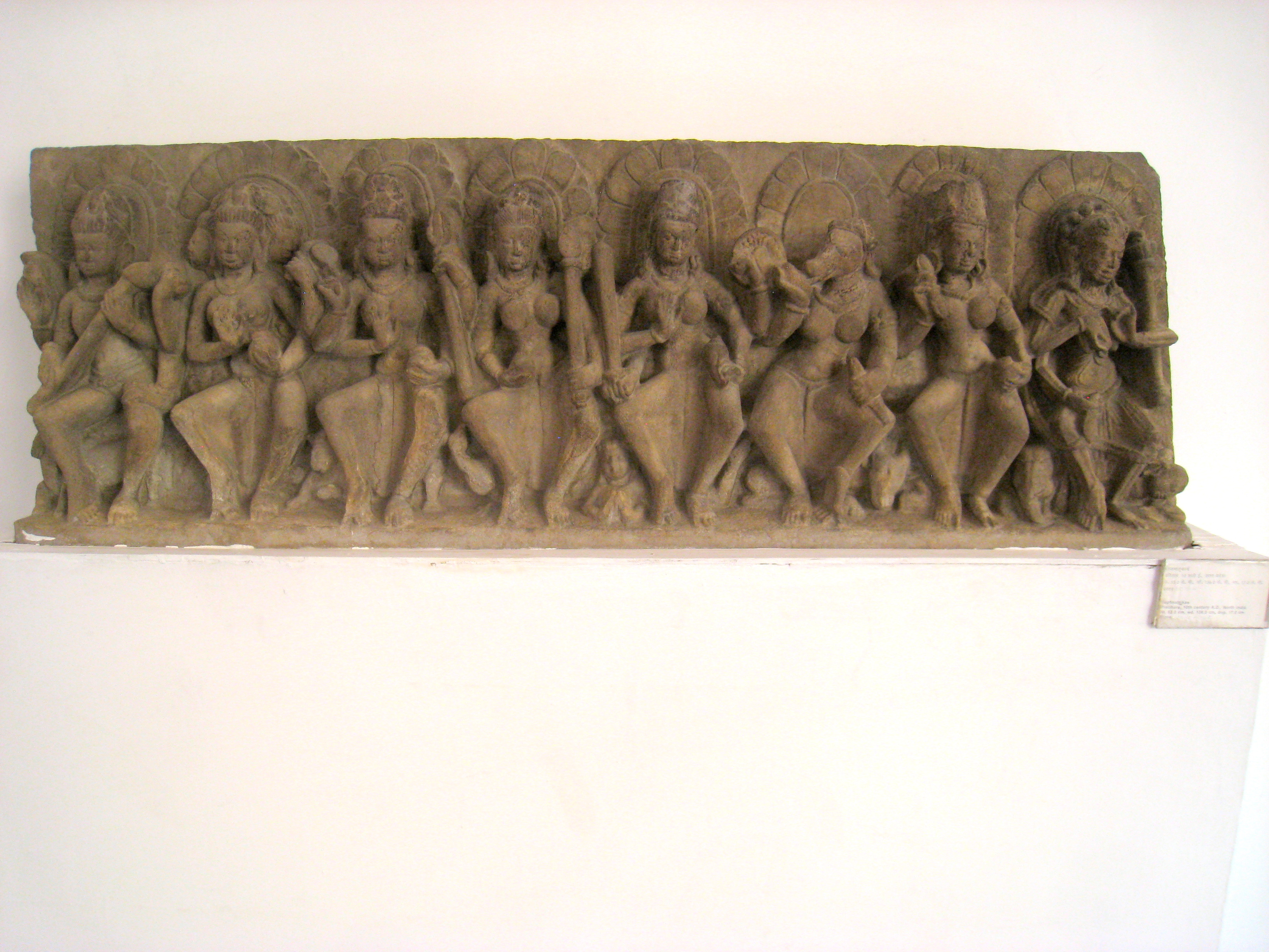 Stone sculpture in National Museum, New Delhi, India.